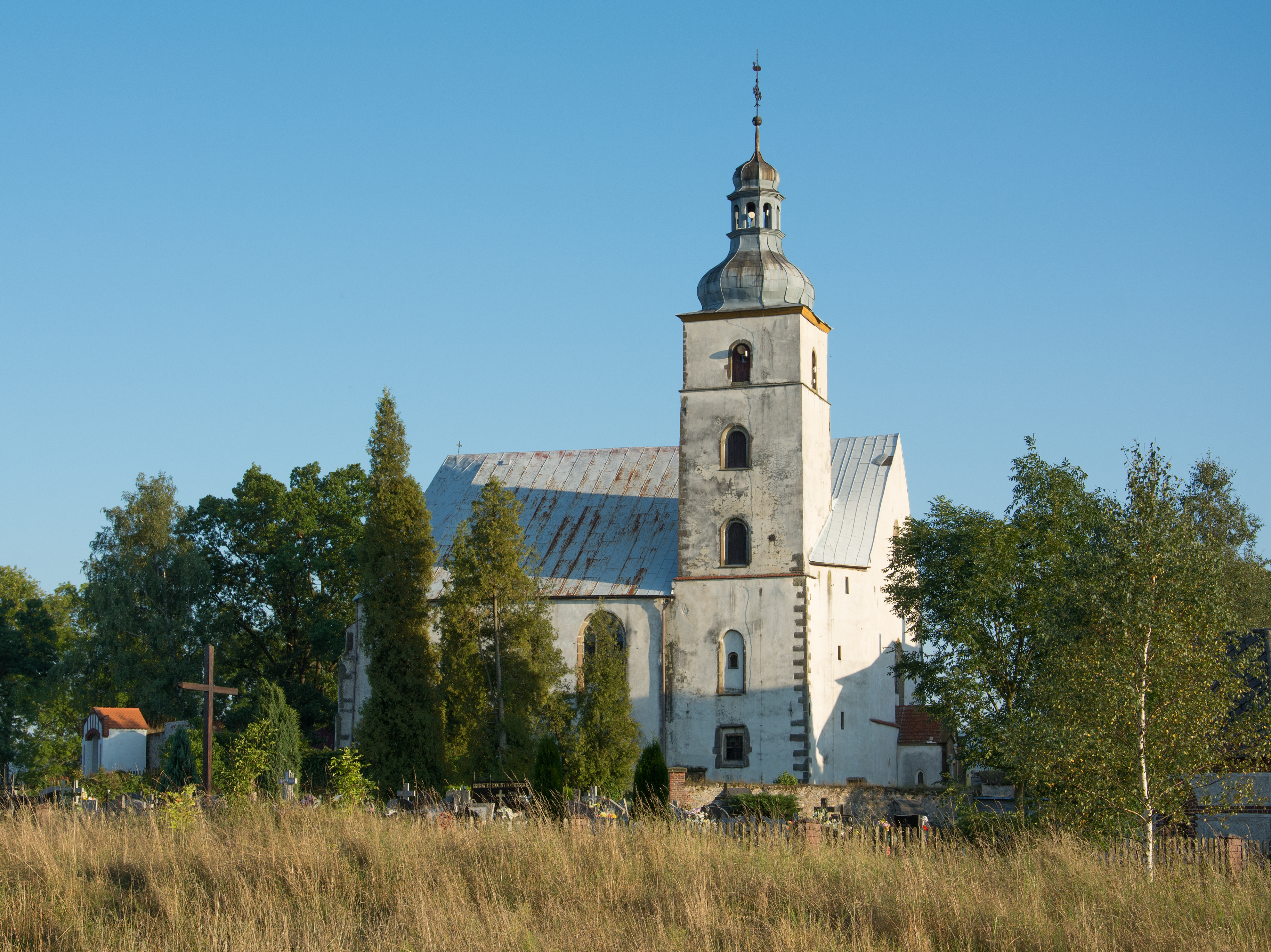 Saint Lawrence church in Krzeszówek